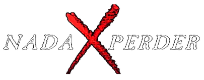 Logo of the political film Nada x perder, one of the firsts argentine-movies made on digital format.